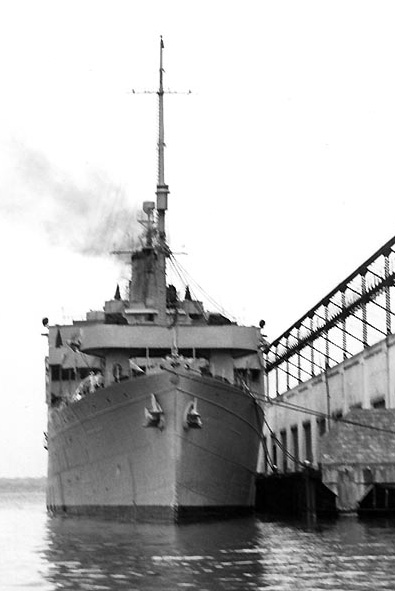 Duque de Caxias (Brazilian Transport, 1918, formerly USS Orizaba) In port, circa the 1950s. U.S. Naval Historical Center Photograph.